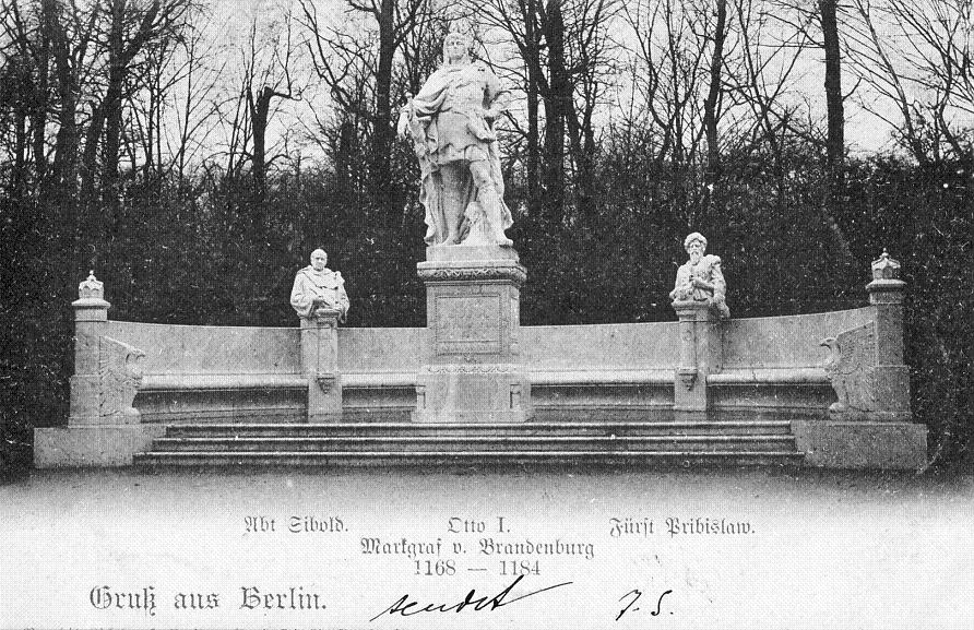 Memorial commemorating to Otto I (c. 1128-1184), second Brandenburgischer margrave and son of Albert the Bear, with the statues showing abbot Sibold (Lehnin Abbey) and Fürst Pribislaw on the right. Inaugurated 1898 in the former Siegesallee in Berlin, created by the sculptor Max Unger. At the present the statues are stored in the Lapidarium in Berlin-Kreuzberg.